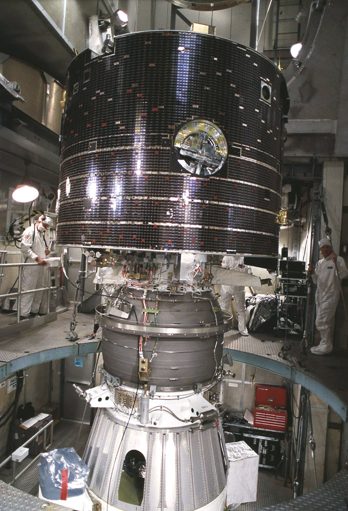 Orginal NASA Text: Name of Image: Geomagnetic Tail Lab (GEOTAIL) Spacecraft Launch on Delta II Full Description: Workers at Launch Complex 17 Pad A, Kennedy Space Center (KSC) encapsulate the Geomagnetic Tail (GEOTAIL) spacecraft (upper) and attached payload Assist Module-D upper stage (lower) in the protective payload fairing. GEOTAIL project was designed to study the effects of Earth's magnetic field. The solar wind draws the Earth's magnetic field into a long tail on the night side of the Earth and stores energy in the stretched field lines of the magnetotail. During active periods, the tail couples with the near-Earth magnetosphere, sometimes releasing energy stored in the tail and activating auroras in the polar ionosphere. GEOTAIL measures the flow of energy and its transformation in the magnetotail and will help clarify the mechanisms that control the imput, transport, storage, release, and conversion of mass, momentum, and energy in the magnetotail.